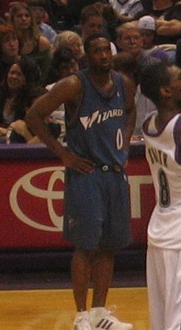 Gilbert Arenas cropped, Washington Wizards